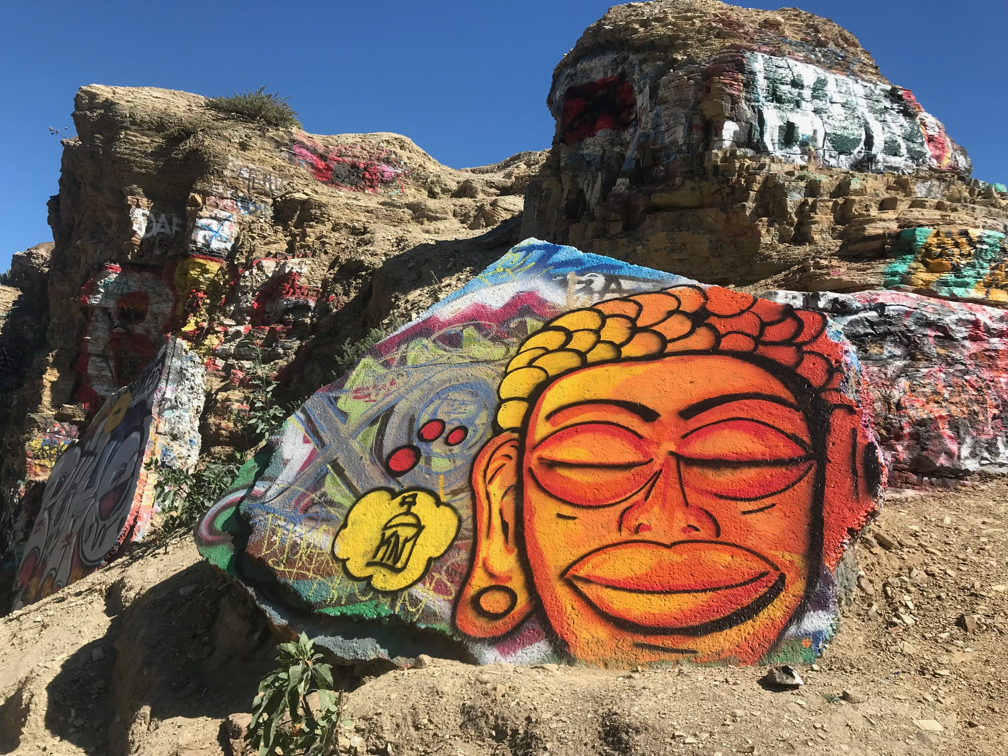 Sunken City Tail in California. Join us as we explore the amazing graffiti left in the aftermath of San Pedro. San Pedro Sunken City .